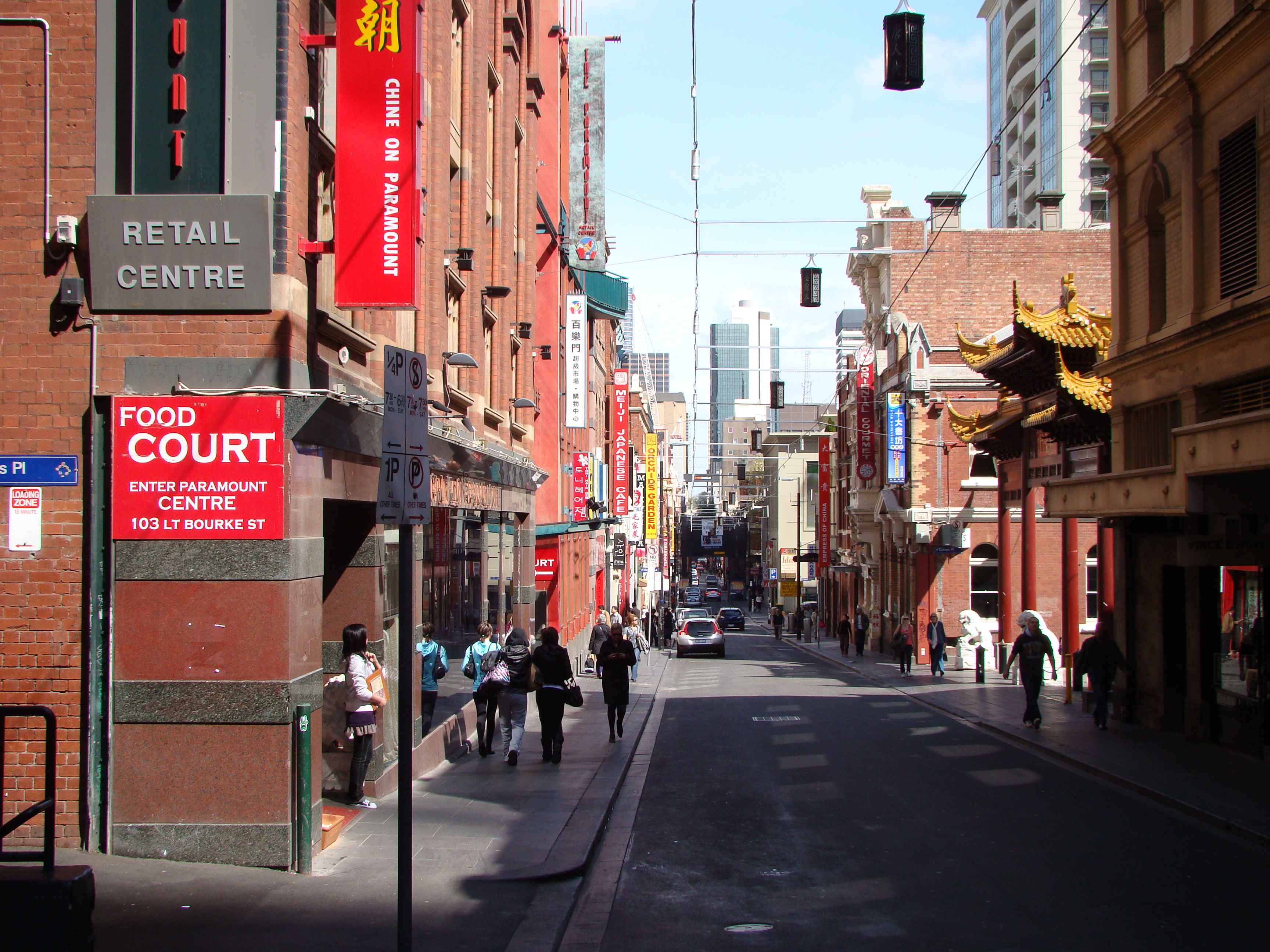 Little Bourke Street, Melbourne, Victoria, Australia